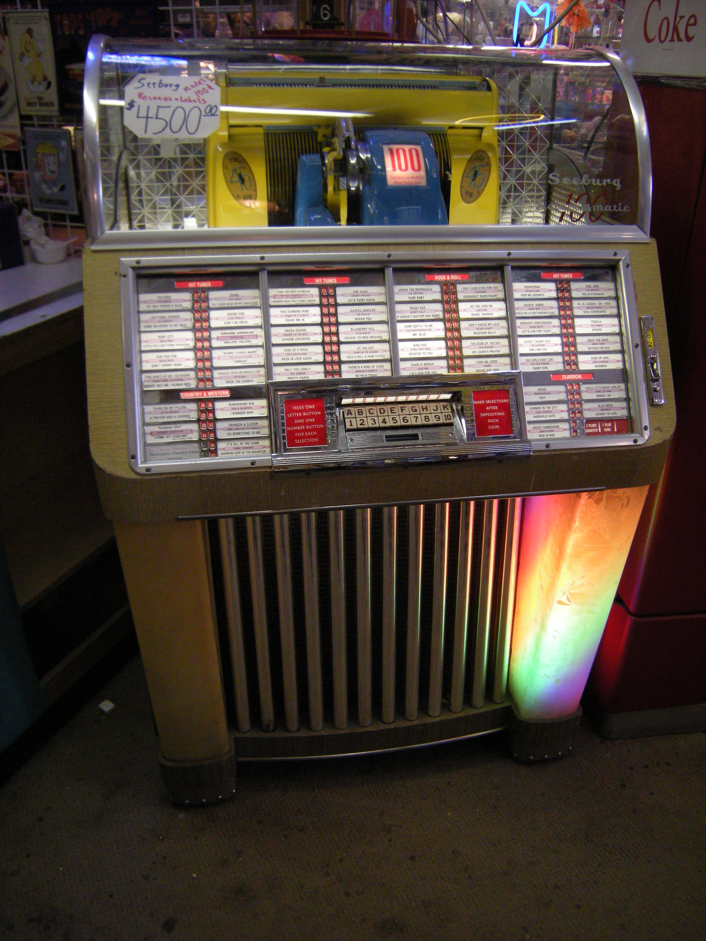 Seeburg Model 1004 jukebox. Photographed at Pegasus Shops, Snohomish, Washington.